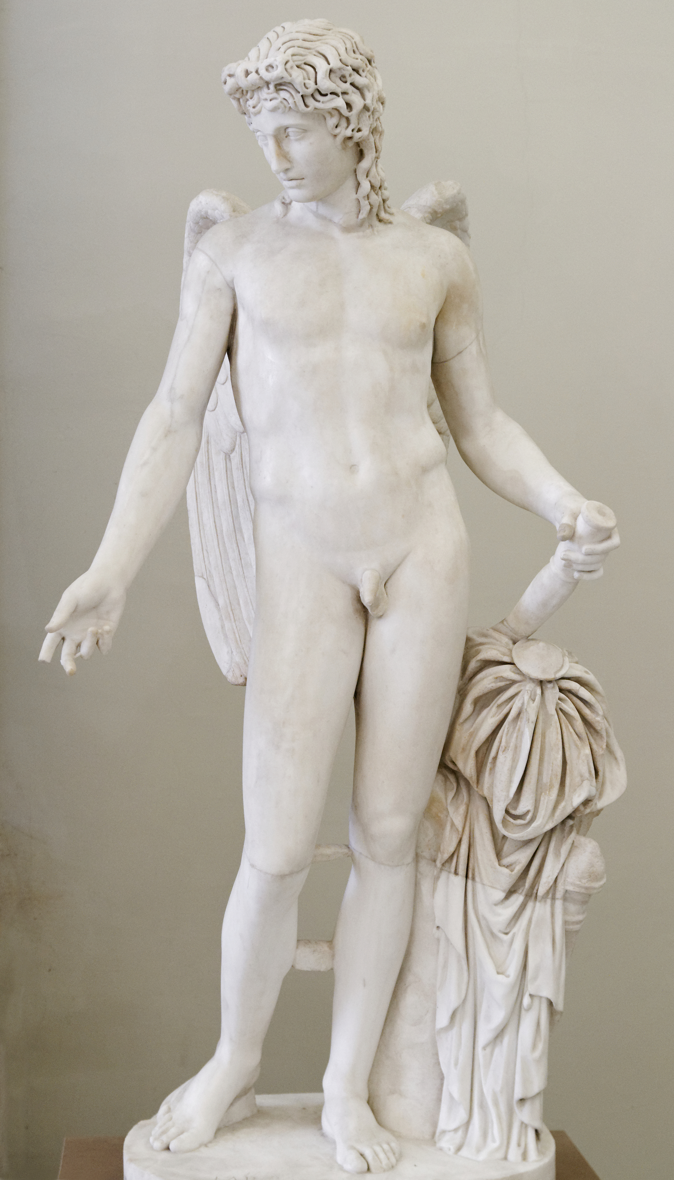 Statue of Eros of the type of Centocelle. Roman artwork of the 2nd century AD, probably a copy after a Greek original of the eclectic school.